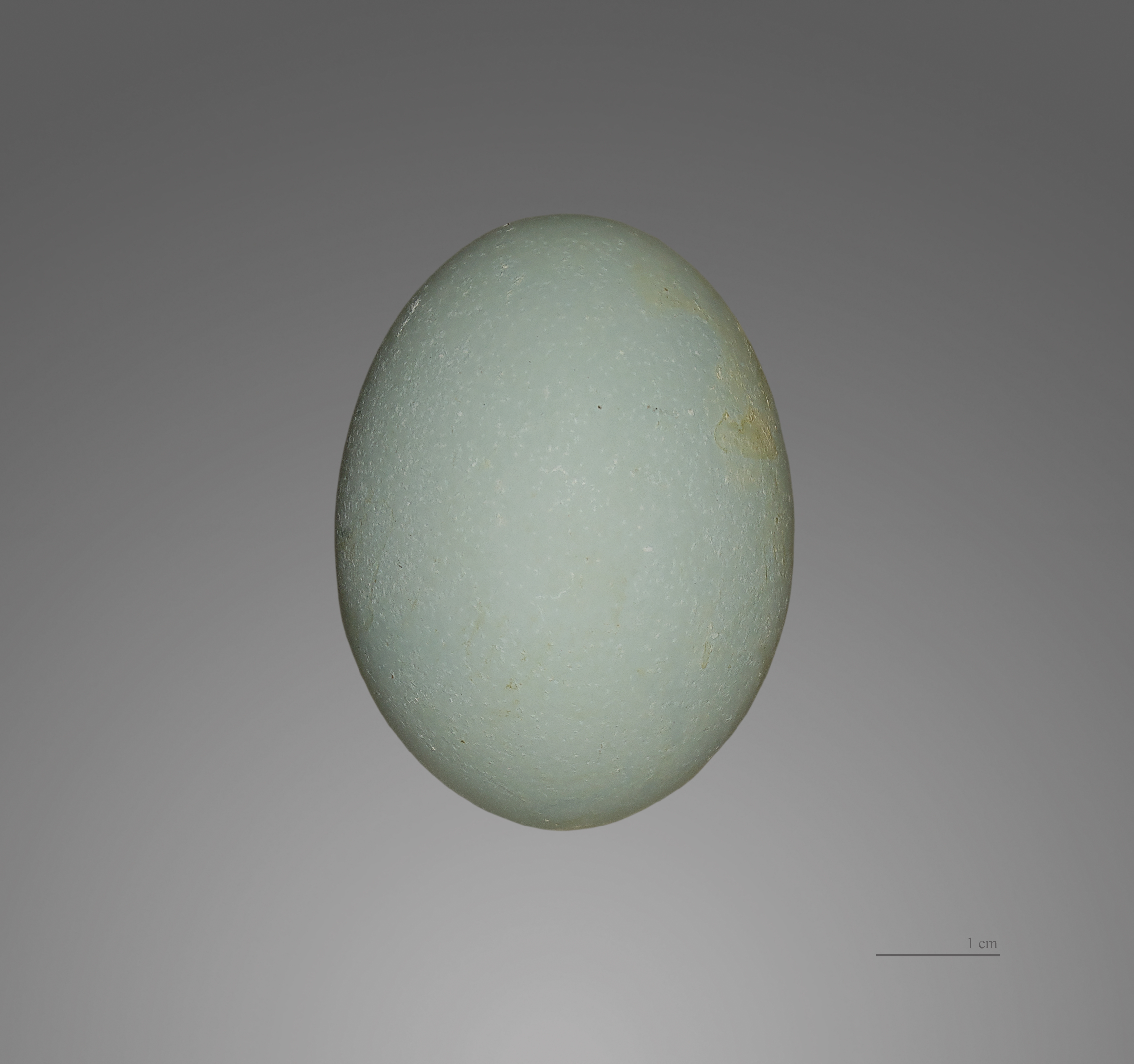 Egg of Black-crowned Night Heron. Collection of Jacques Perrin de Brichambaut.